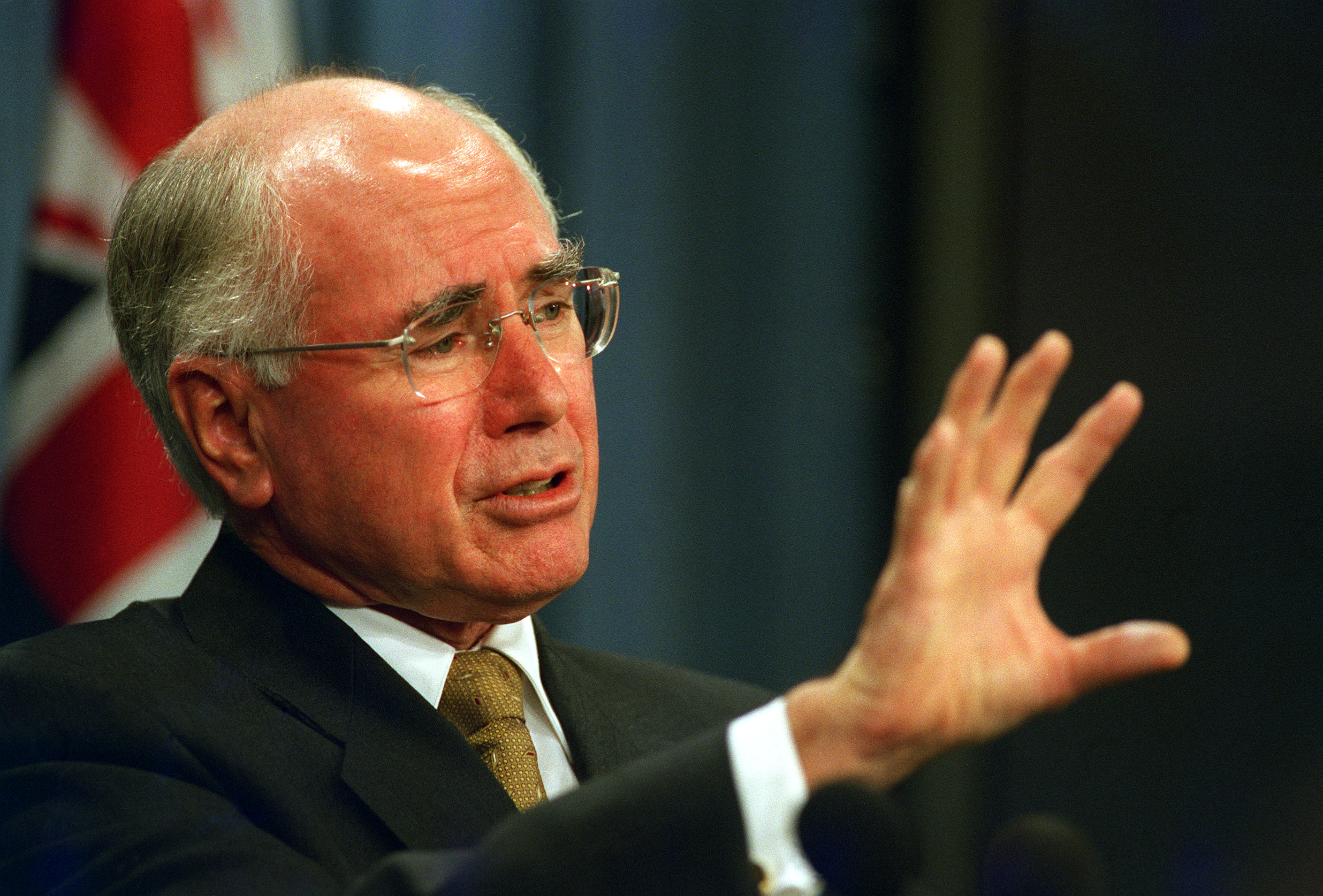 Australian Prime Minister John Howard responds to a reporter's question during a joint press conference with Secretary of Defense Donald Rumsfeld in the Pentagon on Feb. 4, 2003. Howard and Rumsfeld met earlier discuss a range of bilateral security issues including the situation in Iraq.